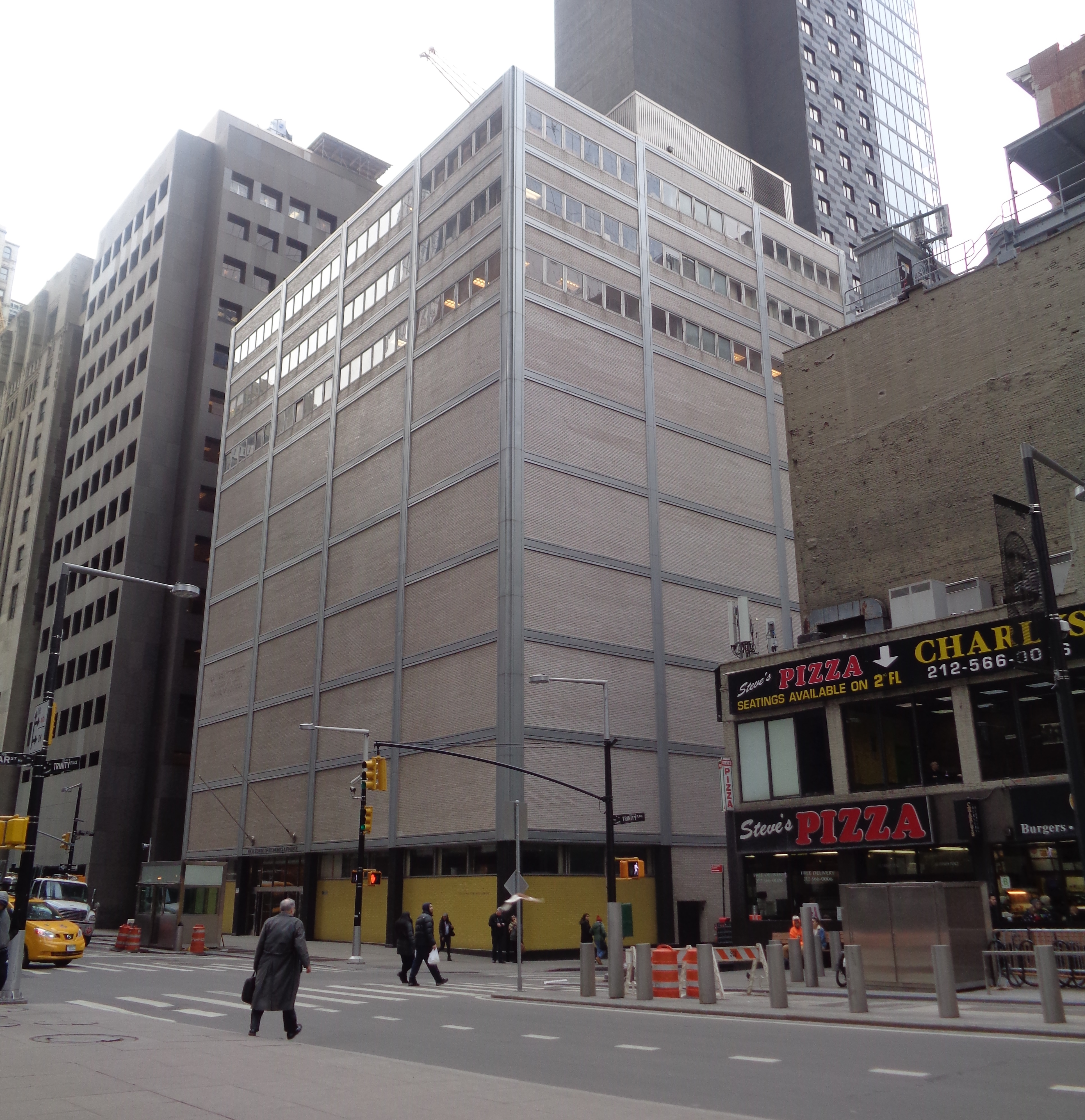 The High School of Economics and Finance at Trinity Place and Cedar Street, looking from Zuccotti Park near the World Trade Center in the Financial District, Manhattan. This was a former NYU business school building. The lack of windows in the bottom floors is disturbing.